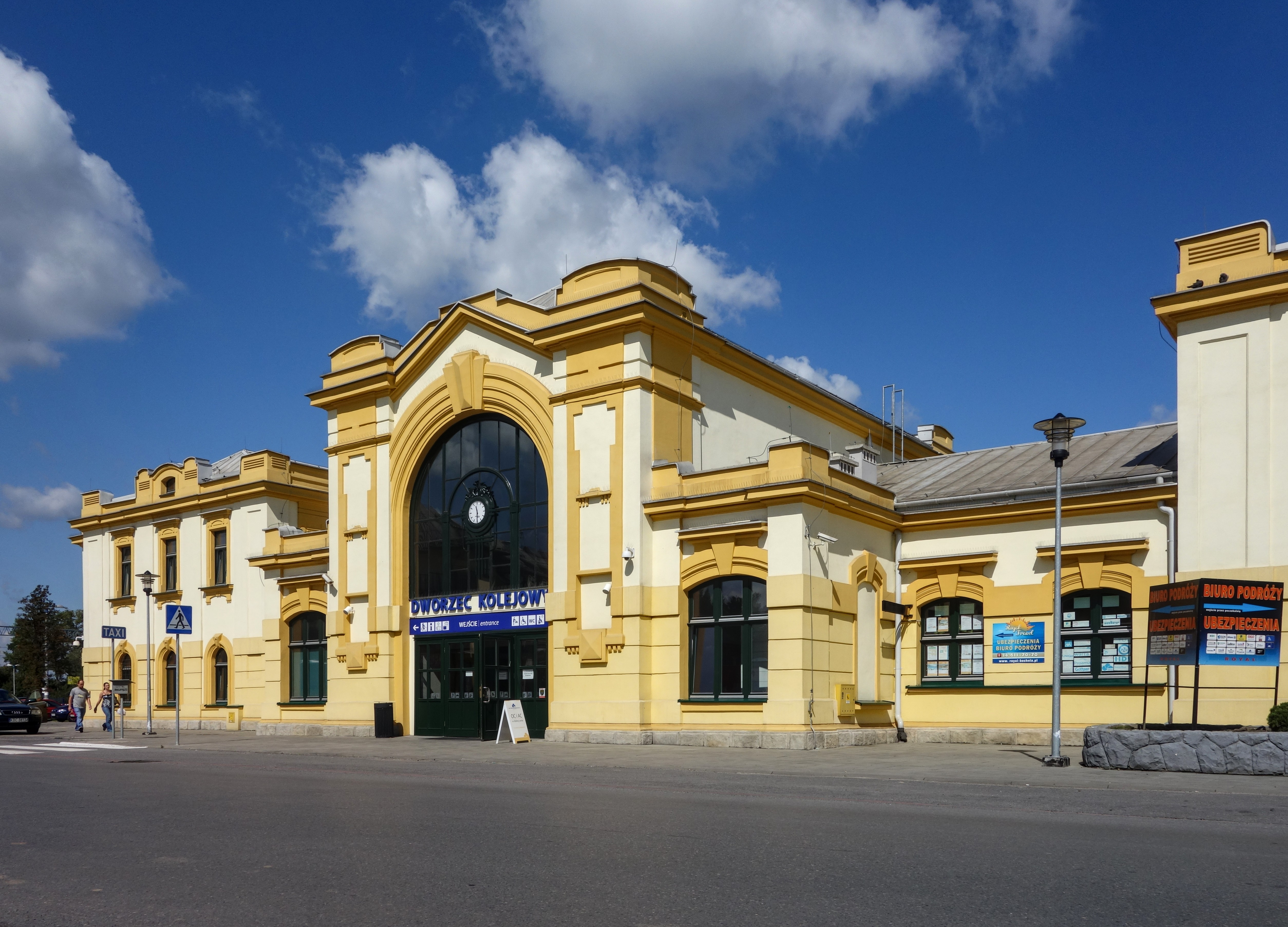 Bochnia - dworzec kolejowy This photo was taken during Railway Wikiexpedition 2014 set up by Wikimedia Polska Association. You can see all photographs in category Wikiekspedycja kolejowa 2014. English | Polski | +/−